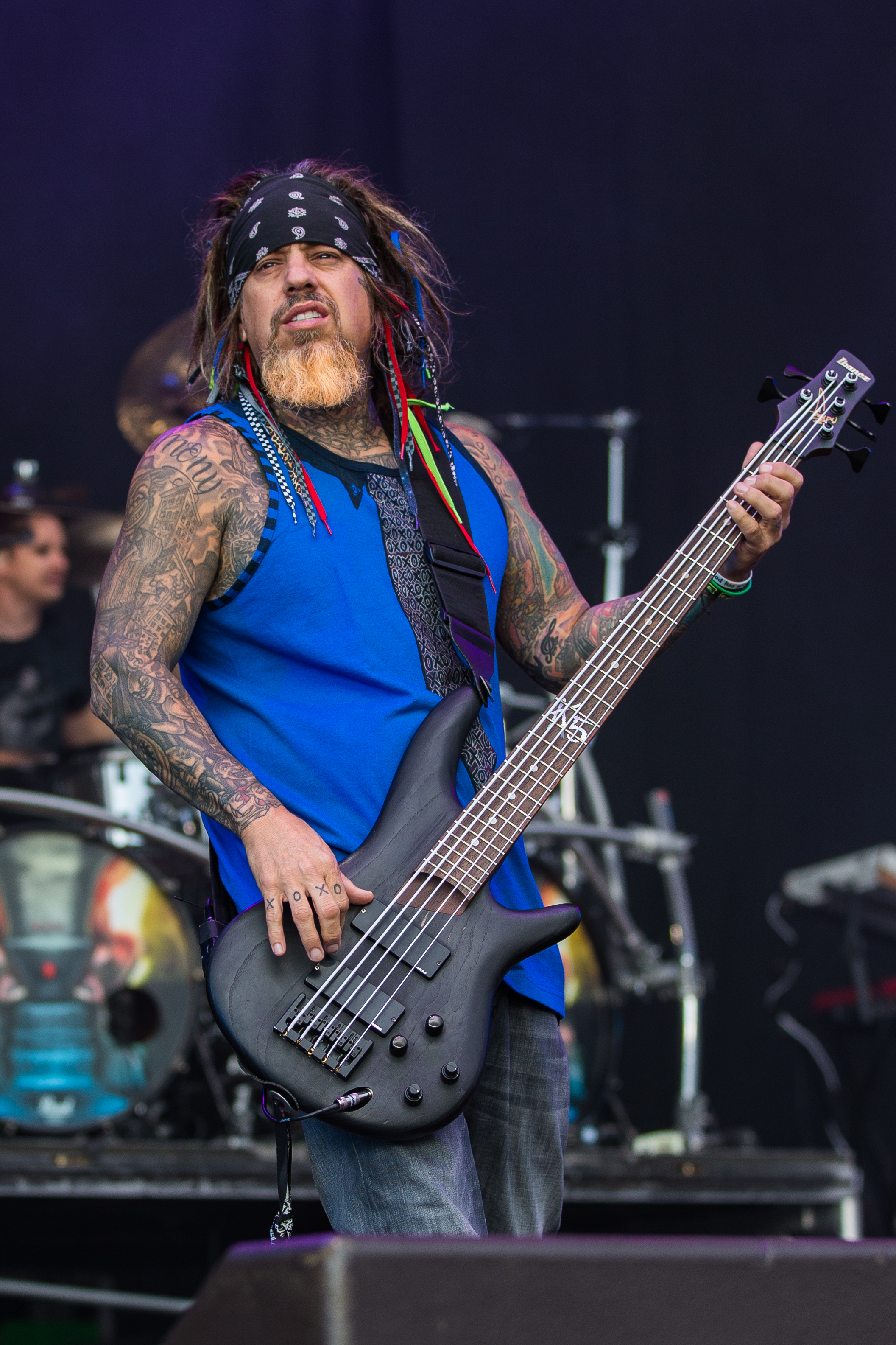 Rock'n'Heim Rock Festival Hockenheim August 2014